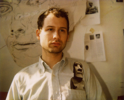 Photo of artist Ryan Johnson.